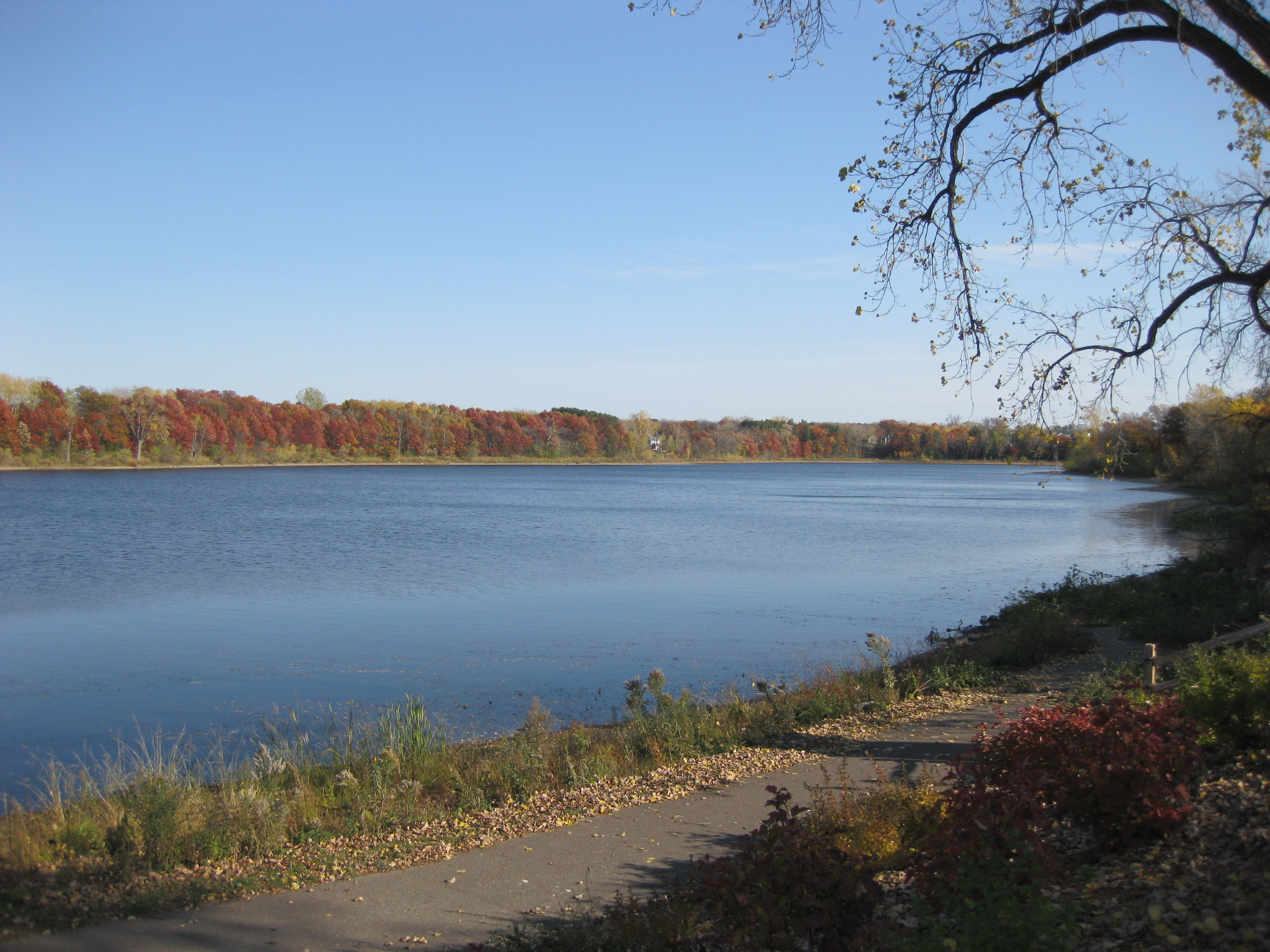 Powers Lake Park in Woodbury, Minnesota